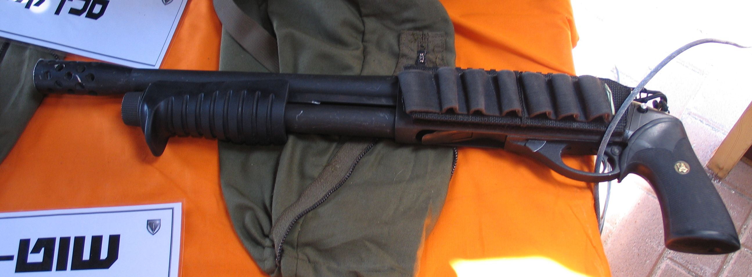 A shotgun. Independence Day exhibition at Yad la-Shiryon Museum, Latrun, Israel.